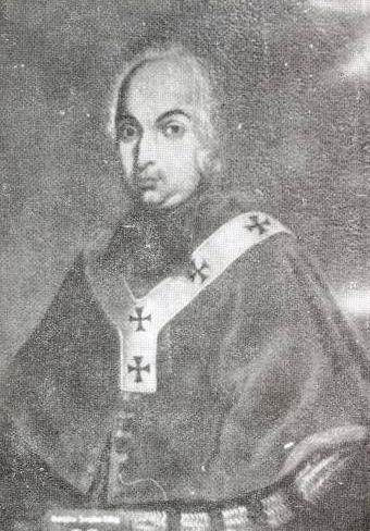 Rudolf Jožef Edling (1721-1803)